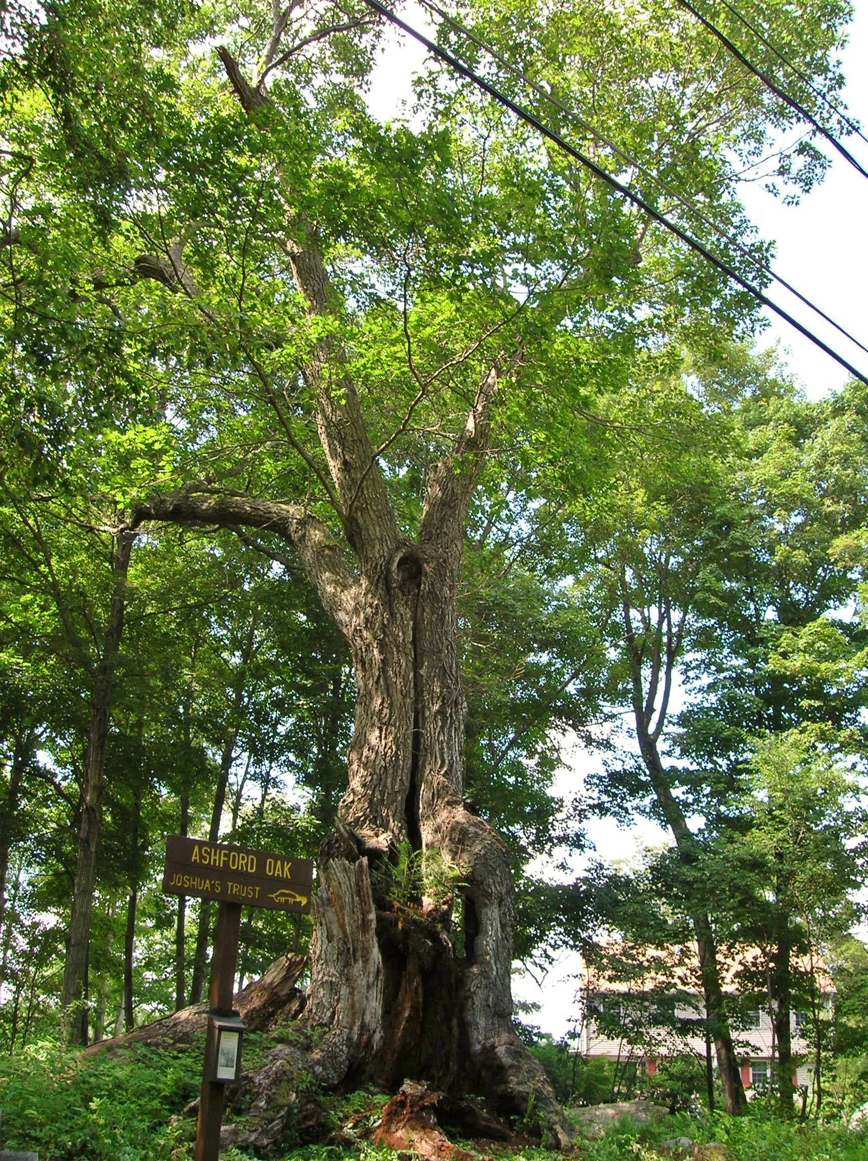 Photograph of the Ashford Oak, a red oak tree located in Ashford, Connecticut. Photo was taken 8/5/2011.